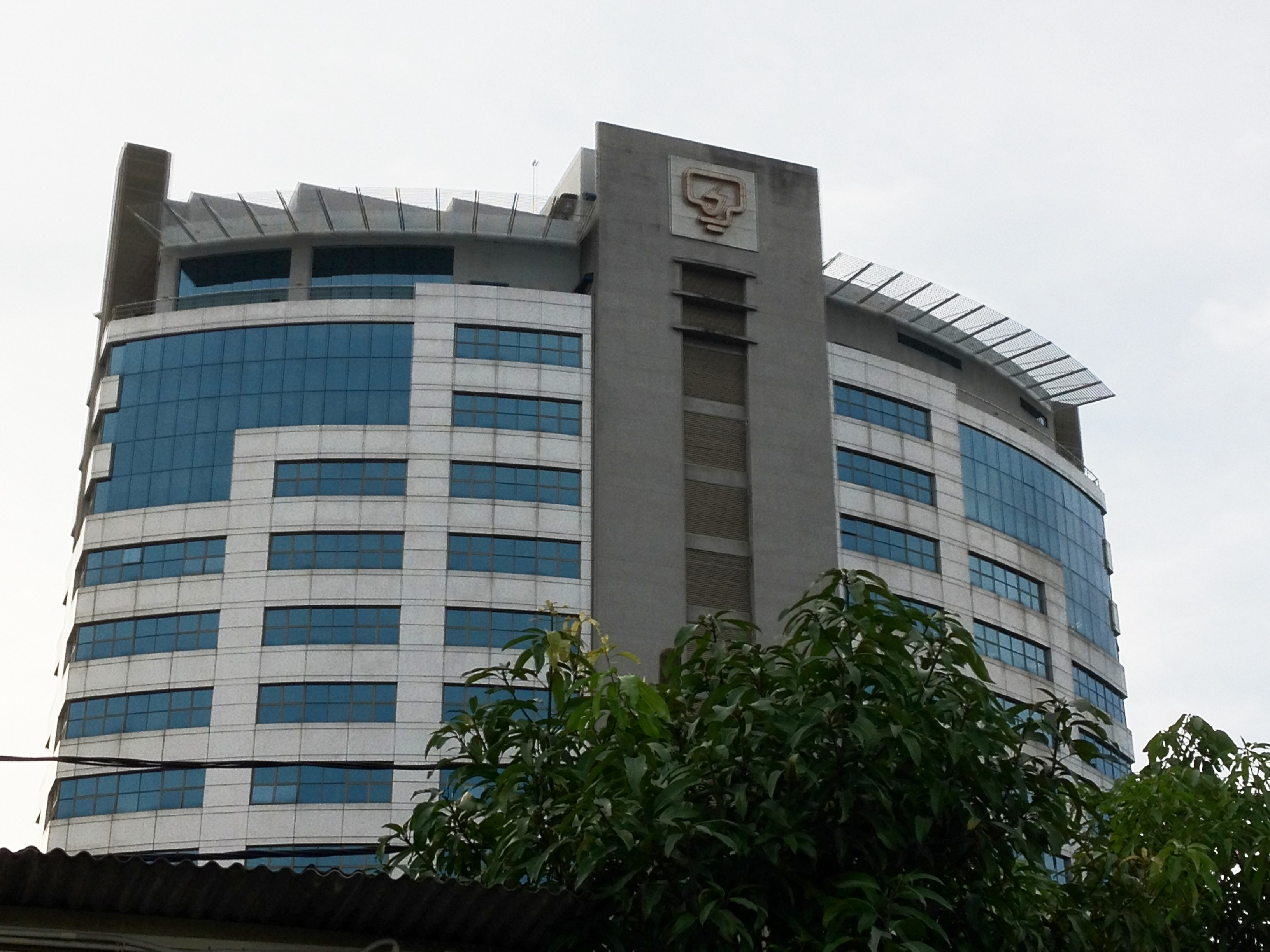 TNB Tenaga Nasional Berhad Electricity utilities HQ Johor Bahru